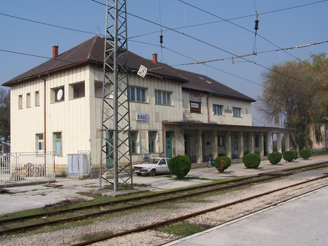 Railway station Bihać (Bosnia and Hercegovina)